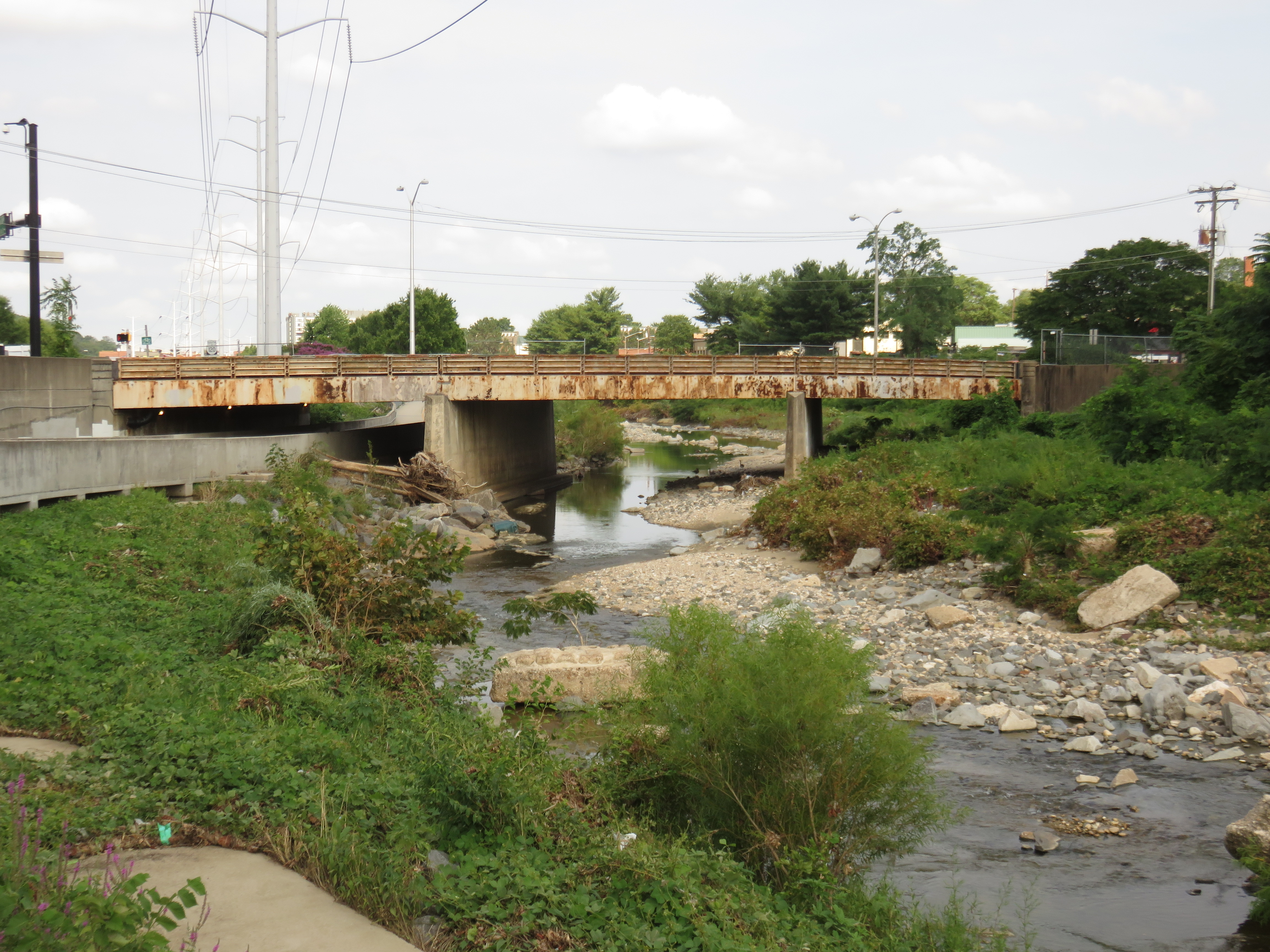 West Glebe Road Bridge over Four Mile Run in Arlington, Virginia and Alexandria, Virginia in 2020